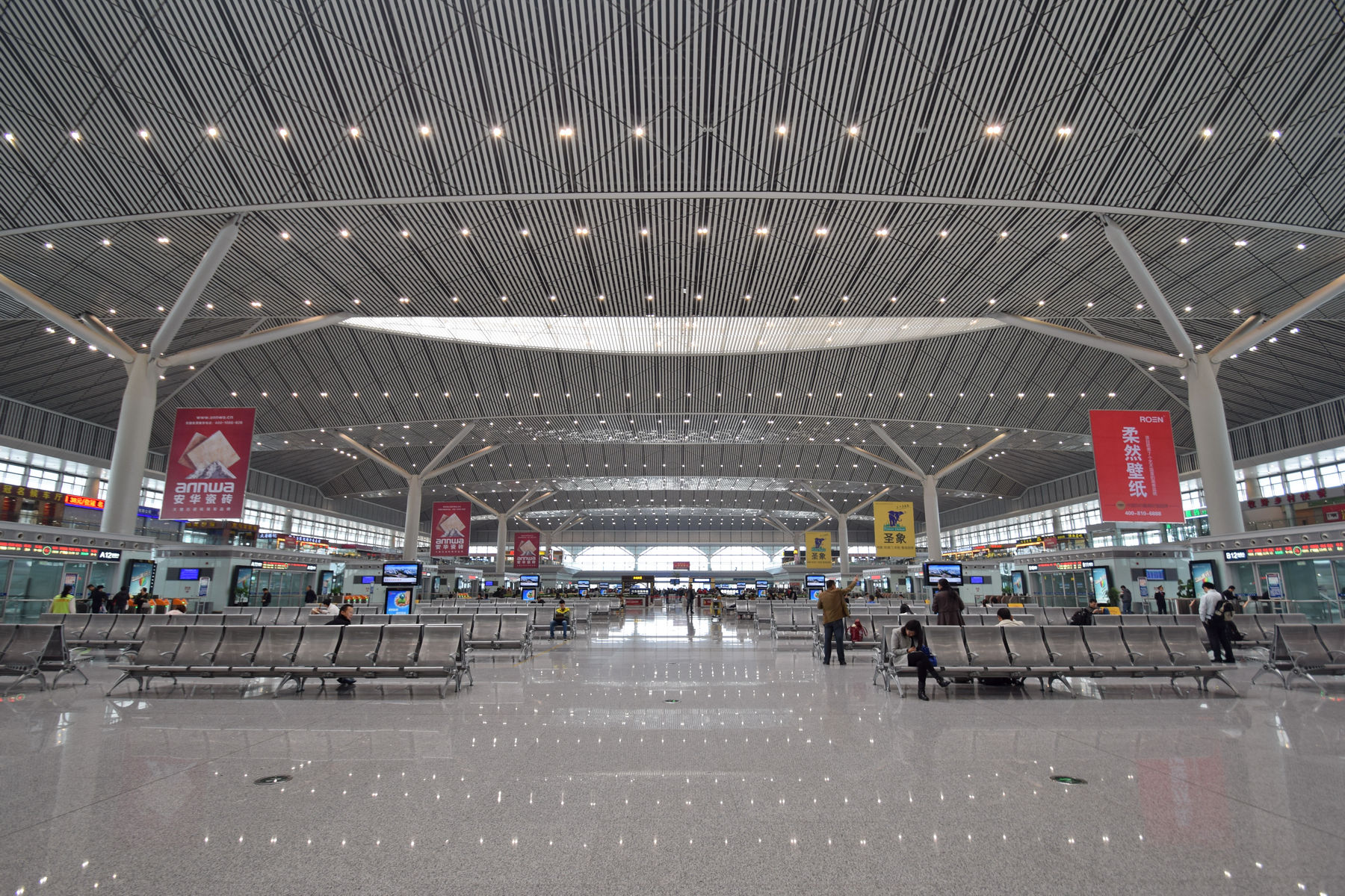 Concourse of Xi'an Bei (North) Railway Station